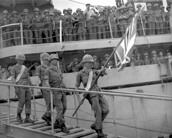 The Royal Thai flag is carried down gangplank of USS Okinagon.